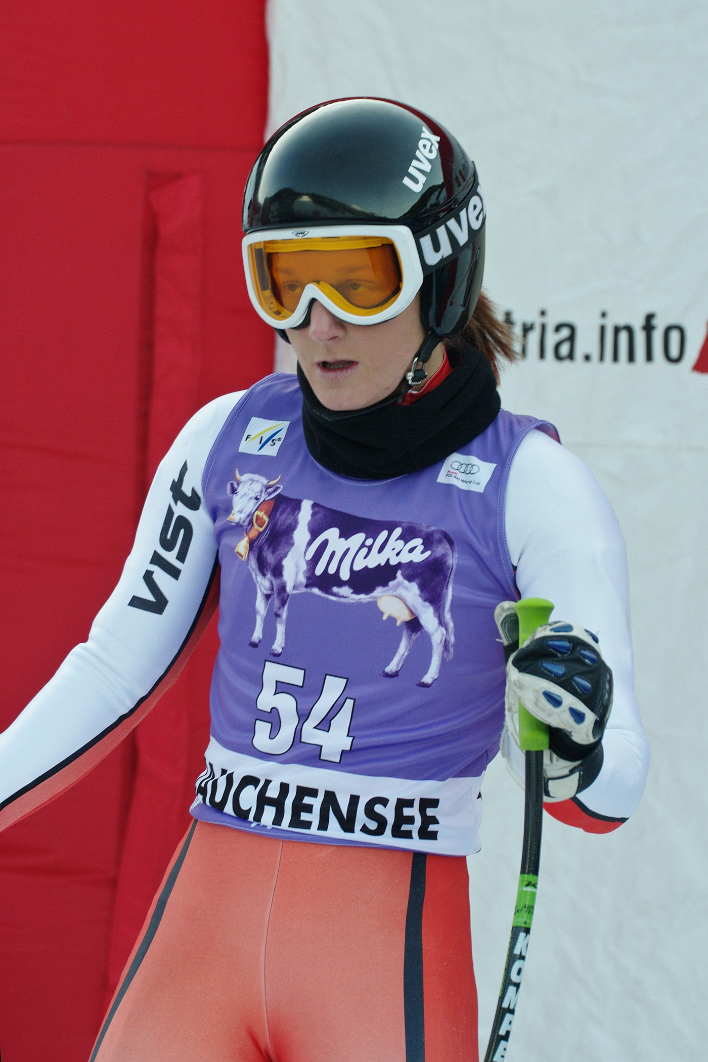 Monegasque alpine skier Alexandra Coletti after the second Downhill training in Altenmarkt-Zauchensee (Austria) on 7 January 2011.